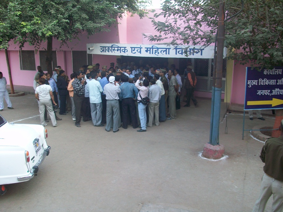 Inspection of Women Hospital